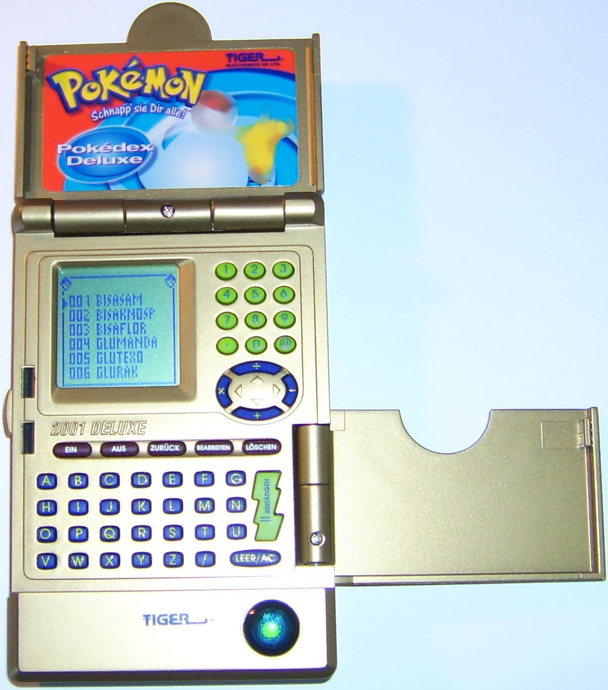 The Pokédex Deluxe (German version), merchandising to the Pokémon franchise. A small computer, which contains data for 250 Pokémon as well as more features including address database, scheduling, notebook and calculator. Manufactured in 2001 by the American company Tiger Electronics.